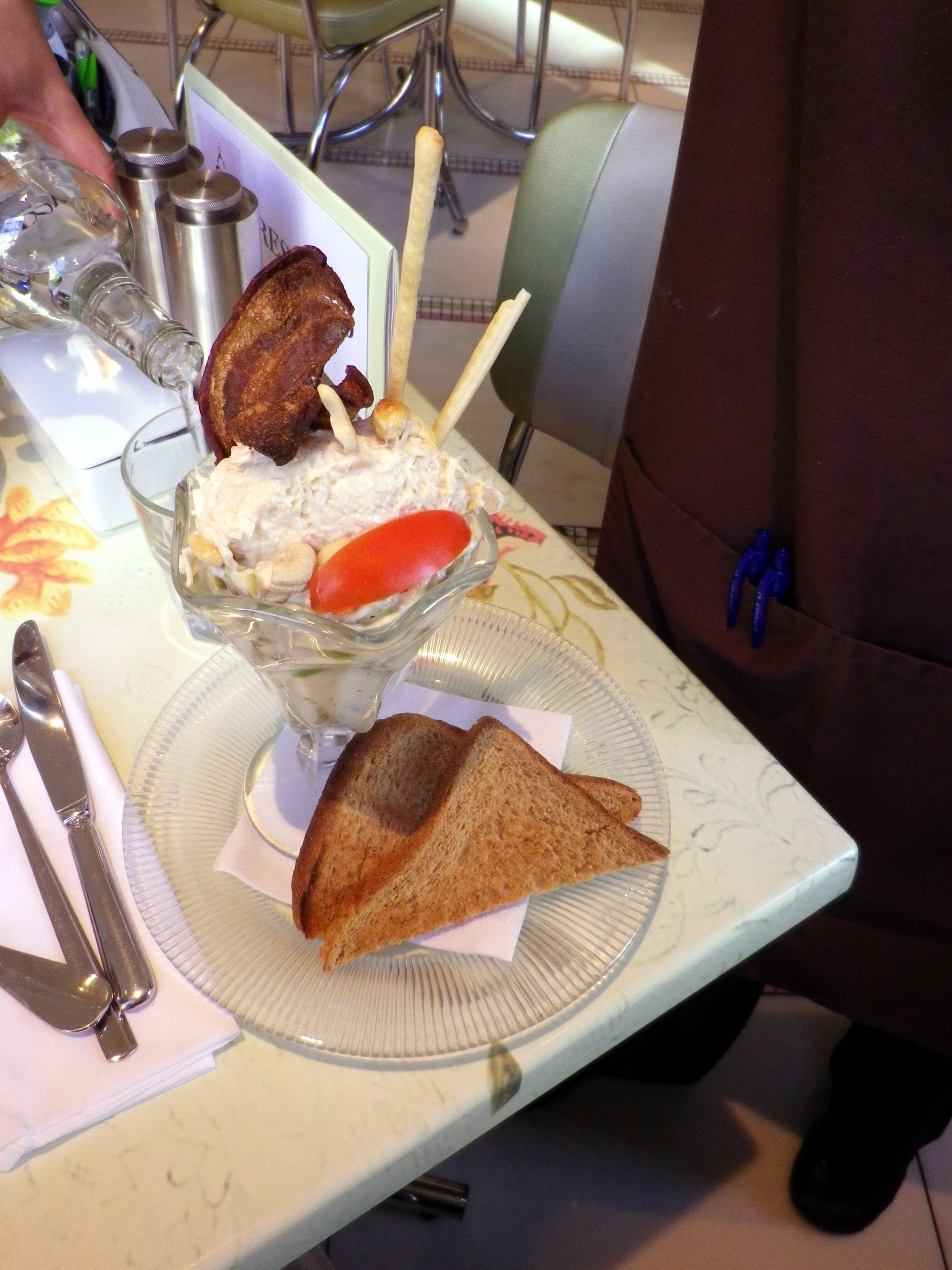 A crab ice cream sundae served with toast on February 3, 2011